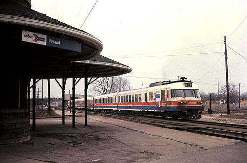 The Blue Water Limited at Durand Union Station in April 1979